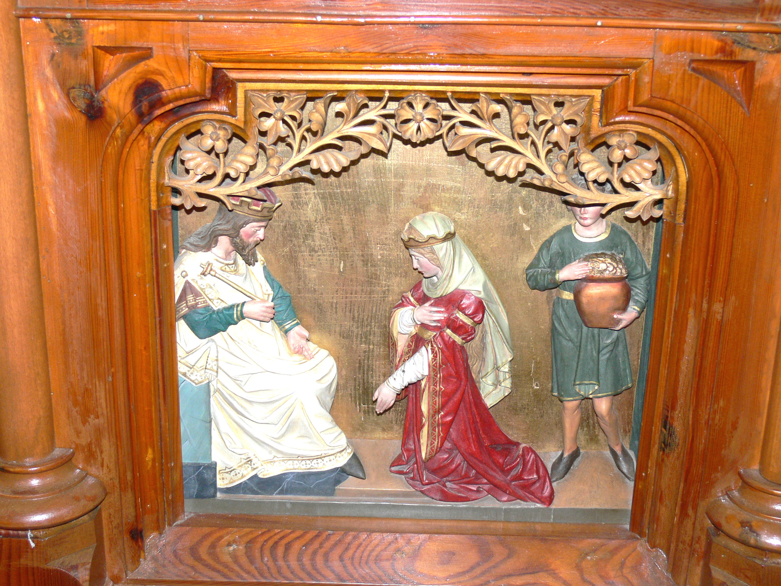 St.Oswald. Parish church: Ambo - Relief of King Salomon and the queen of Saba by Josef Kepplinger ( 1896 )